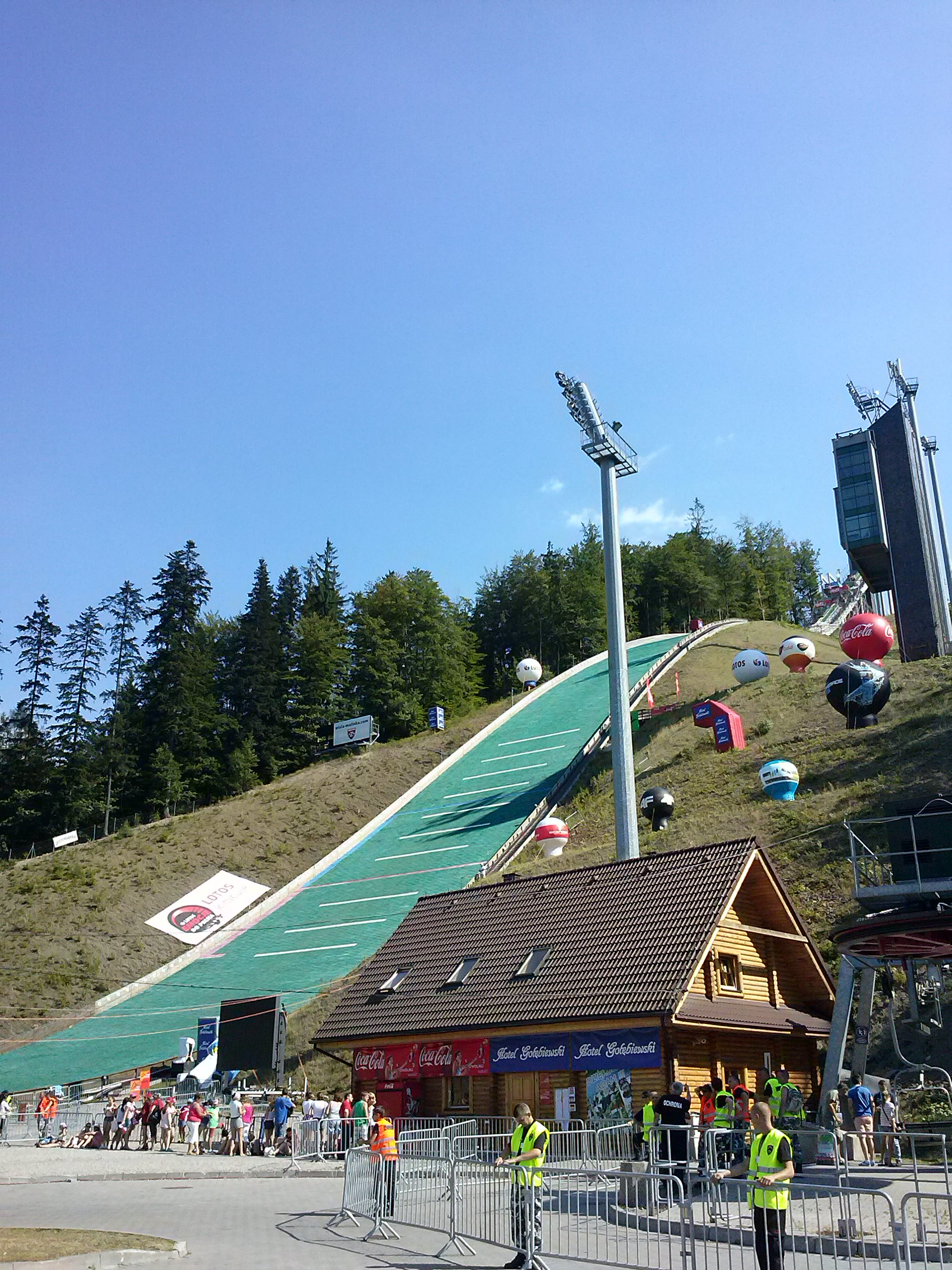 Adam Małysz hill in Wisła-Malinka during FIS Summer Grand Prix 2013.